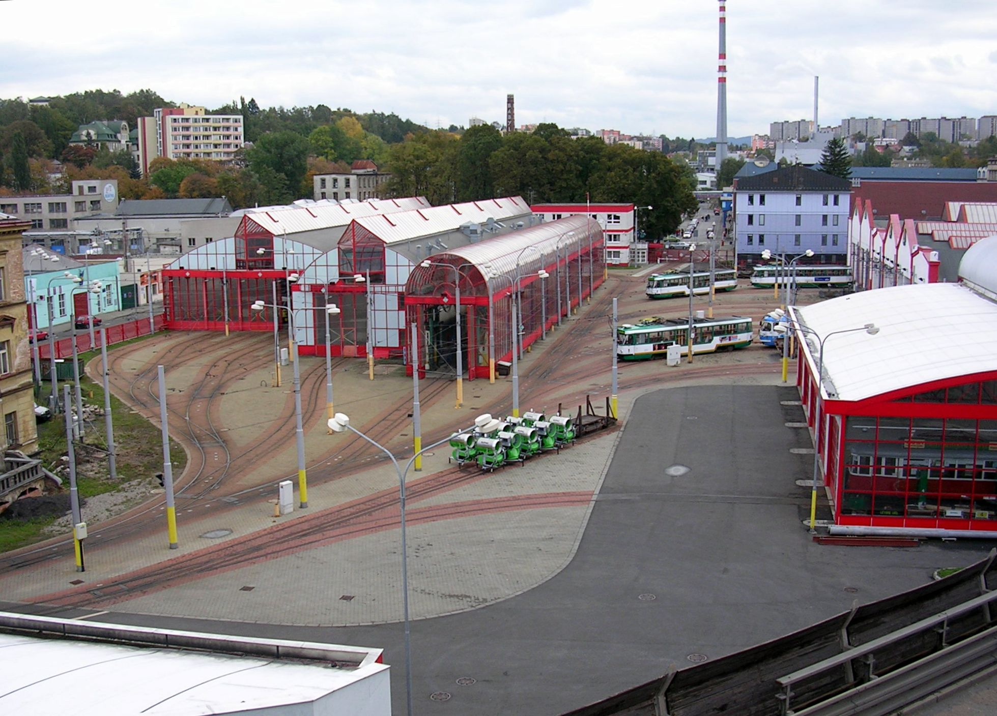 Liberec, Czech Republic. Tram depot.